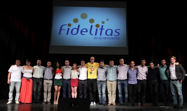 A Fidelitas 2013-as kongresszuson megválasztott elnöksége